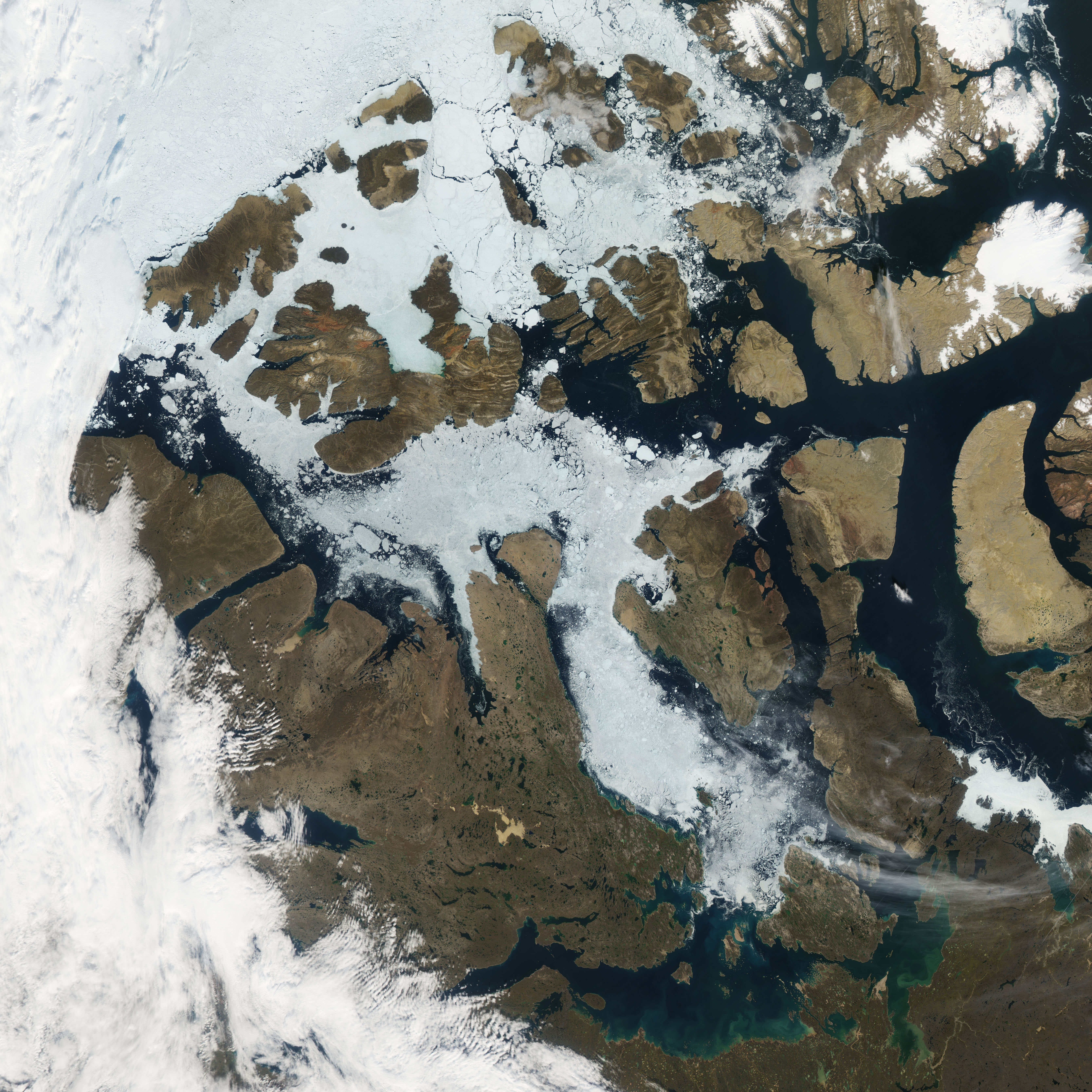 Cloud-free view of the archipelago. Although Parry Channel appears partially ice free, especially in the east, sea ice spans most of McClure Strait, blocking the northern, or preferred, route through the Northwest Passage. The southern route, however, which Roald Amundsen followed from 1903 to 1906, appears open. Snow-free land surfaces allow a view of the islands’ topography. While the western end of Baffin Island appears flat and almost featureless, dramatic stripes cross Bathurst Island in the north-west. These approximately east-west stripes result from layers of exposed bedrock, likely tilted by a mountain-building event in the mid-Mesozoic Era. Snow-free landmasses vary in colour from beige to brown. Cold temperatures, persistent snow cover, and short growing seasons limit tree growth so far north, leaving the islands coated with tundra.